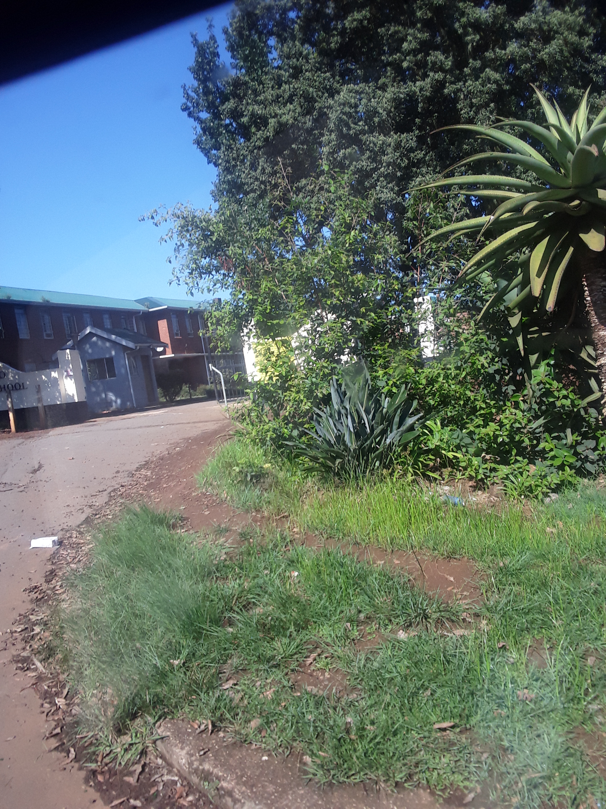 This is an image with the theme "Africa on the Move or Transport" from: South Africa